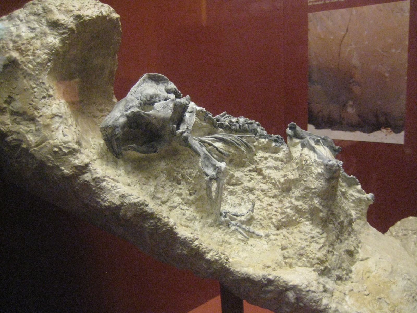 23 million years old Early Miocene This fossil depicts a beaver in natural cast of the burrow it had made.